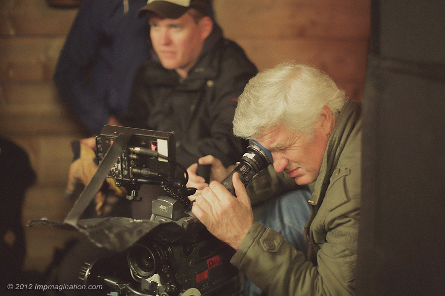 Mark Eberle while filming for Unforgotten Shadows in Ukraine